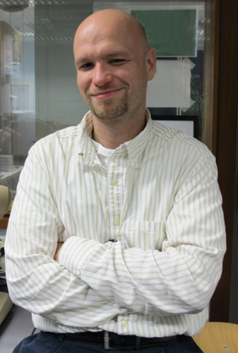 US State department photo of slain US diplomat Sean Smith, killed in Libya along with the US Ambassador